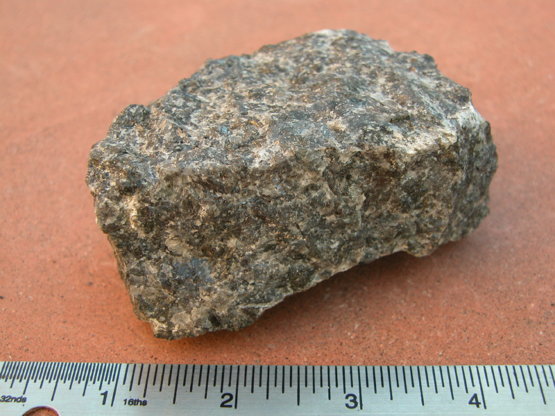 Gabbro